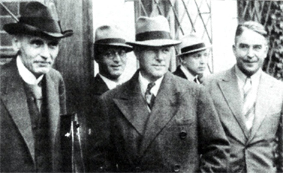 Scan of photo of three founders of modern neurosurgery - Foerster, Olivecrona and Toennis